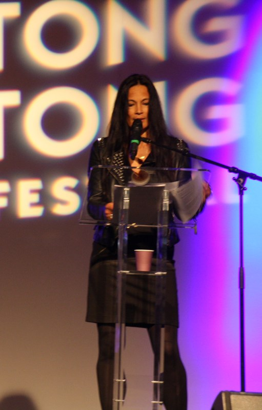 Author Marion Bloem reading from her own work, musically supported on guitar and violin @ Tong Tong Festival 2013.